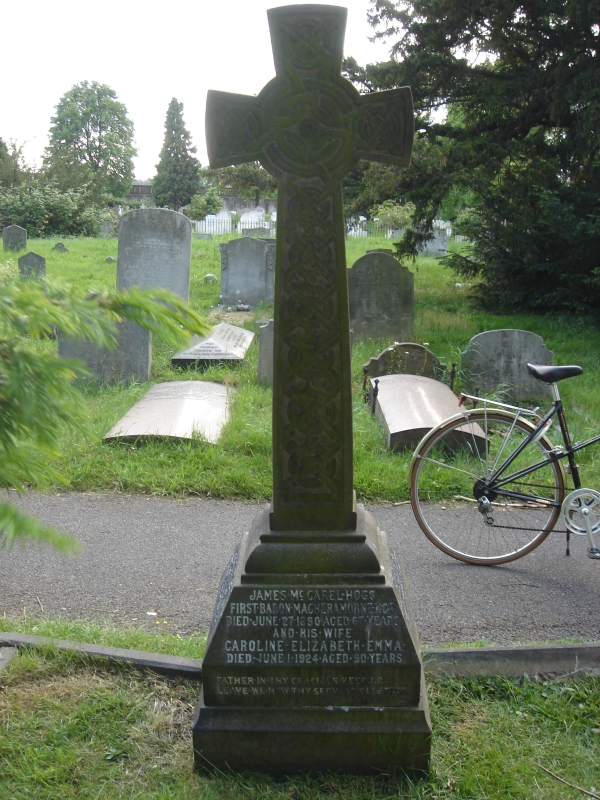 Photo that I have taken.